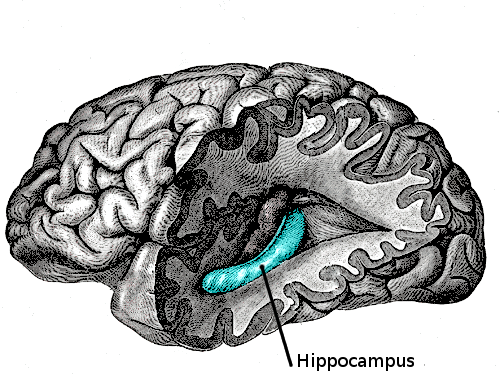 Posterior and inferior cornua of left lateral ventricle exposed from the side